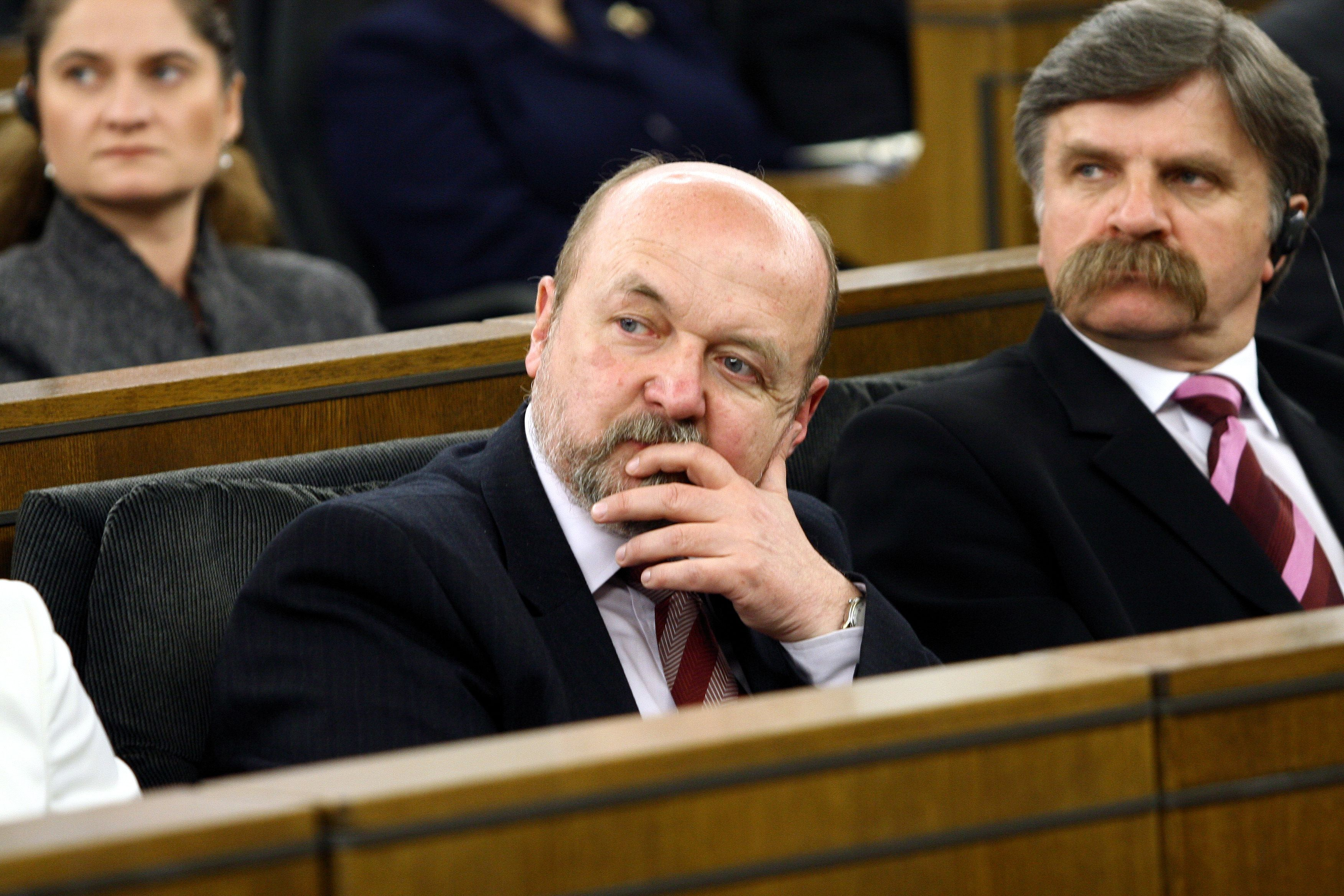 Ryszard Legutko during joint parliamentary assembly of deputies and senators commemorating the Constitution of May 3, 1791, in the Polish Senate